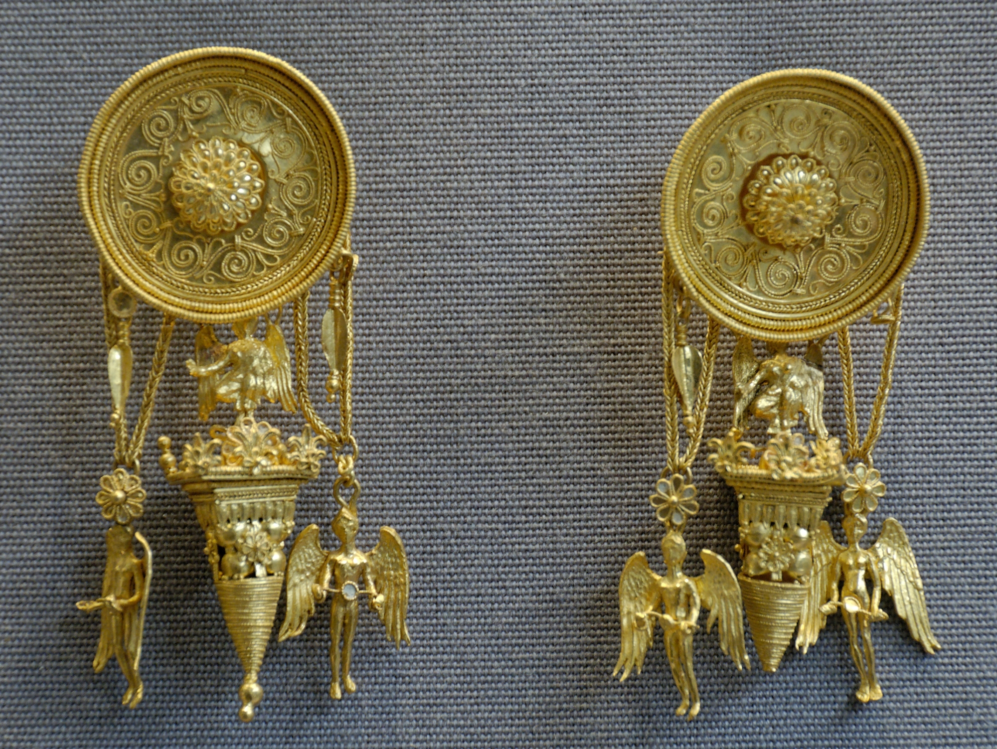 Pair of earrings with gold discs, pyramid pendants, Eros figures holding a iynx (magic love charm) and a winged Nike (personification of victory). Gold, 330-300 BC.